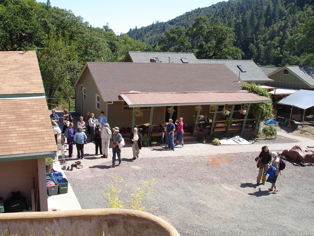 ... with folks milling about after the blessing ceremony.